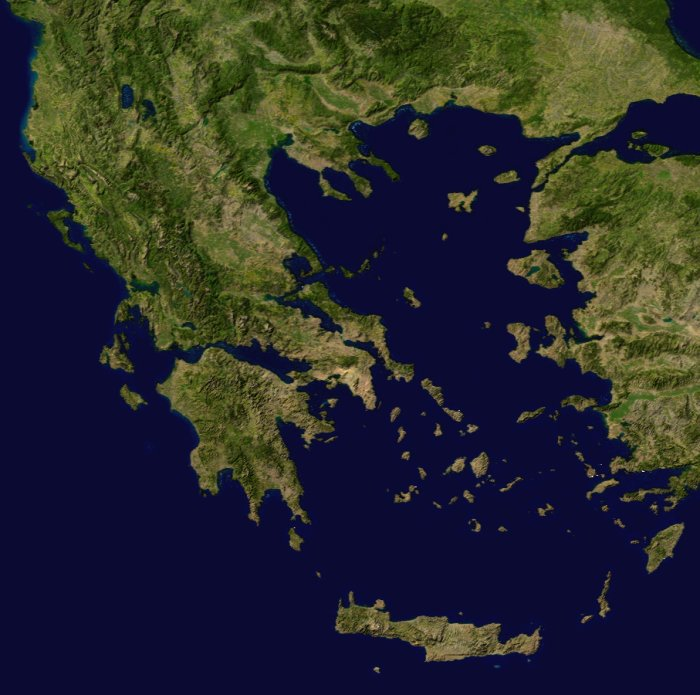 Satellite image of Greece in March 2003.